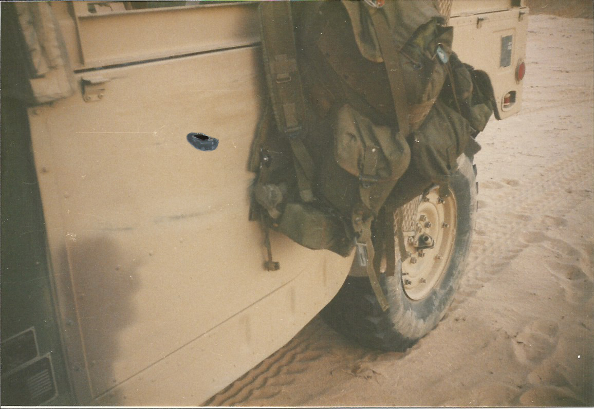 A Humvee driven by Marine Corporal Richard Lovell, took incoming small arms fire when engaging Iraqi forces during Iraq's invasion of the small Saudi town of Khafji.